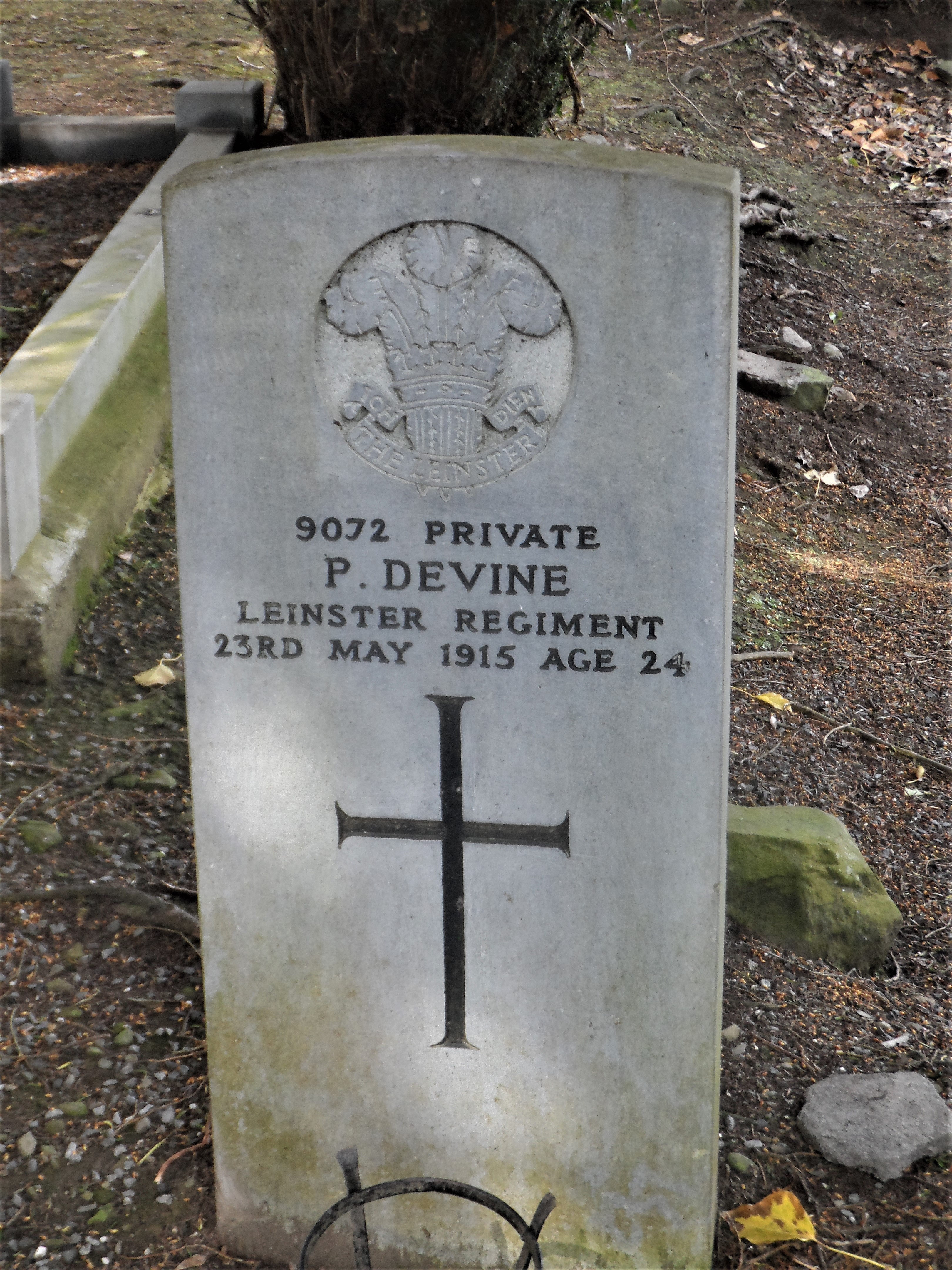 Leinster Regiment tombstone